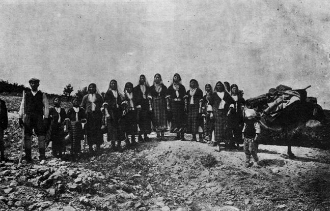 Anatolian Bulgarian refugees from Chatel tepe 1914